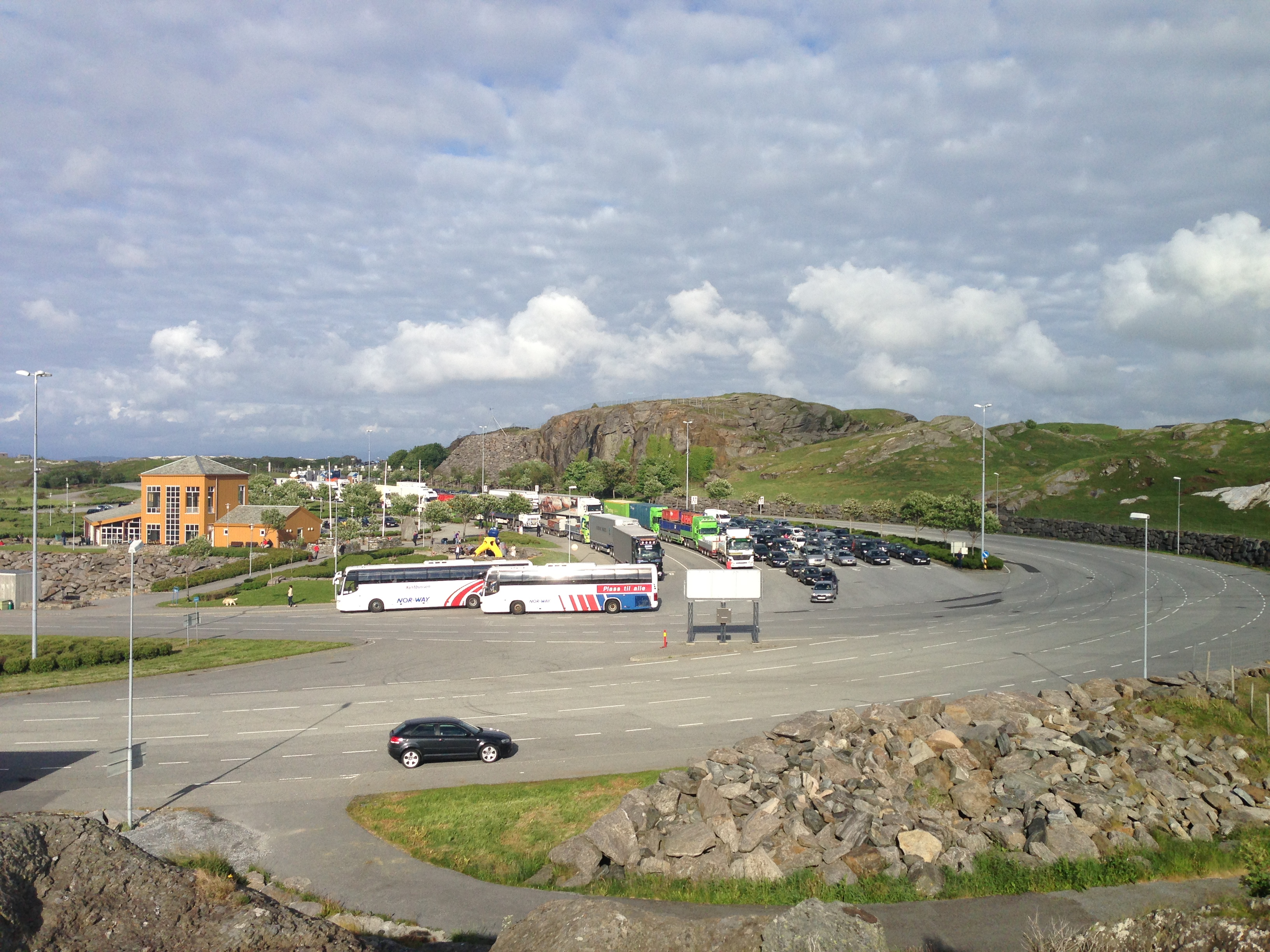 Cars waiting for the ferry at Mortavika.